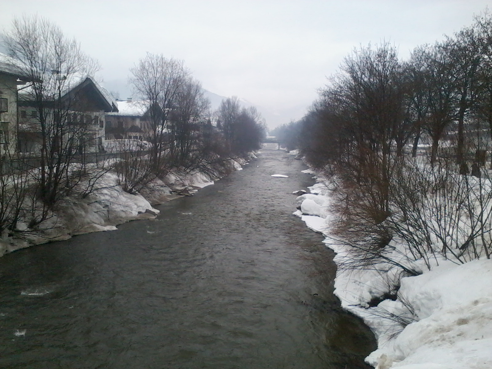 Kitzbühler Ache at St. Johann in Tirol.